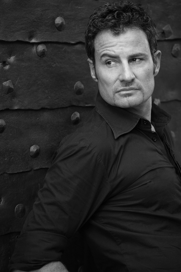 Udo Rein Por­t­rät